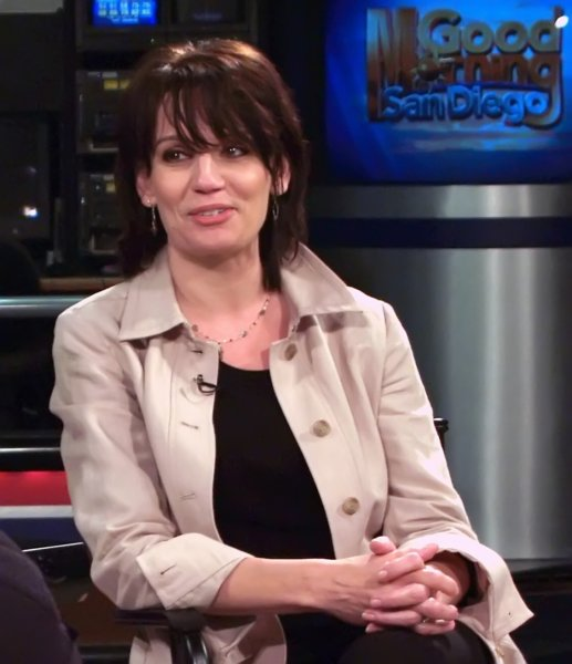 Beth Leavel is a Broadway actor